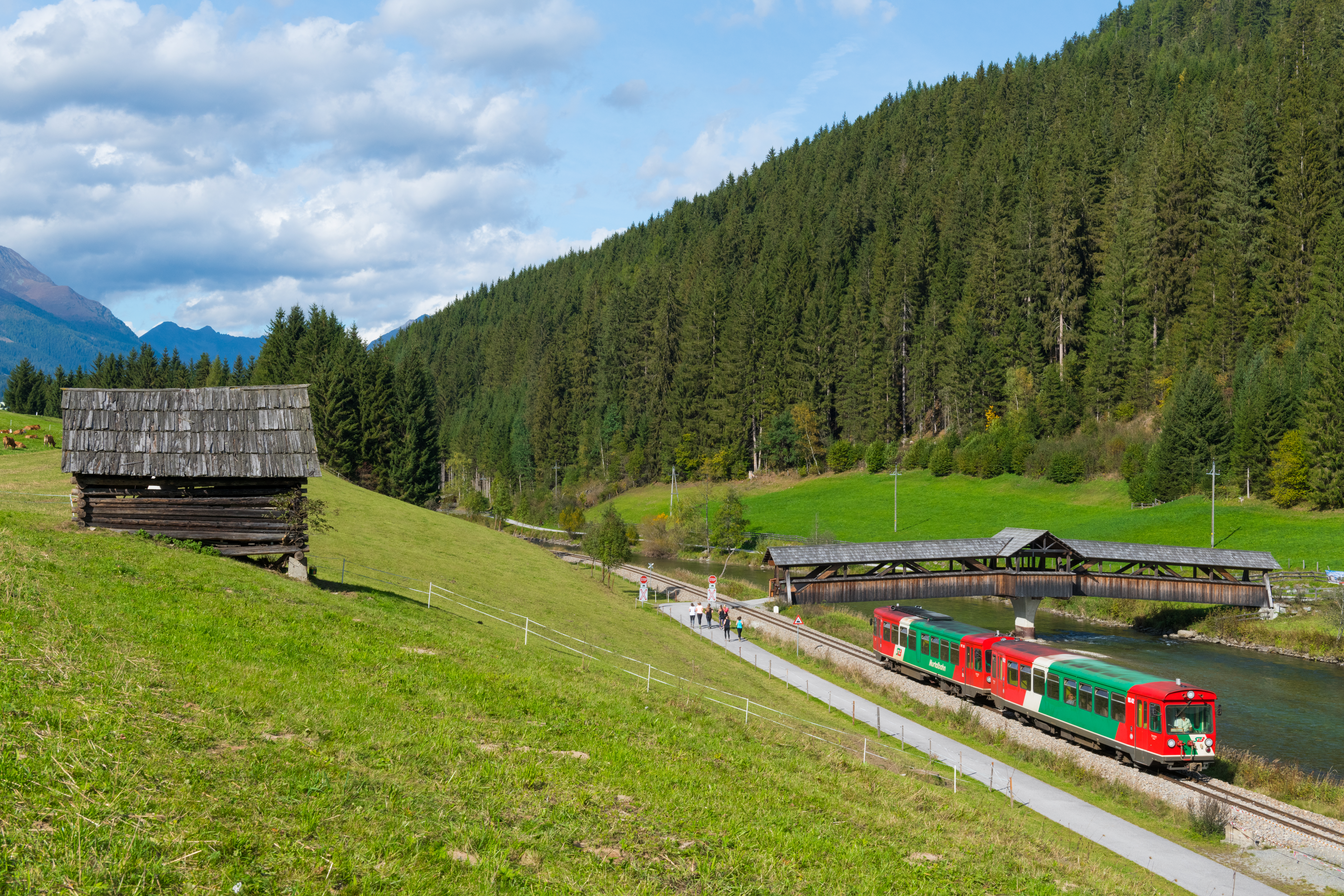 The Murtal Railway between Tamsweg and Madling.